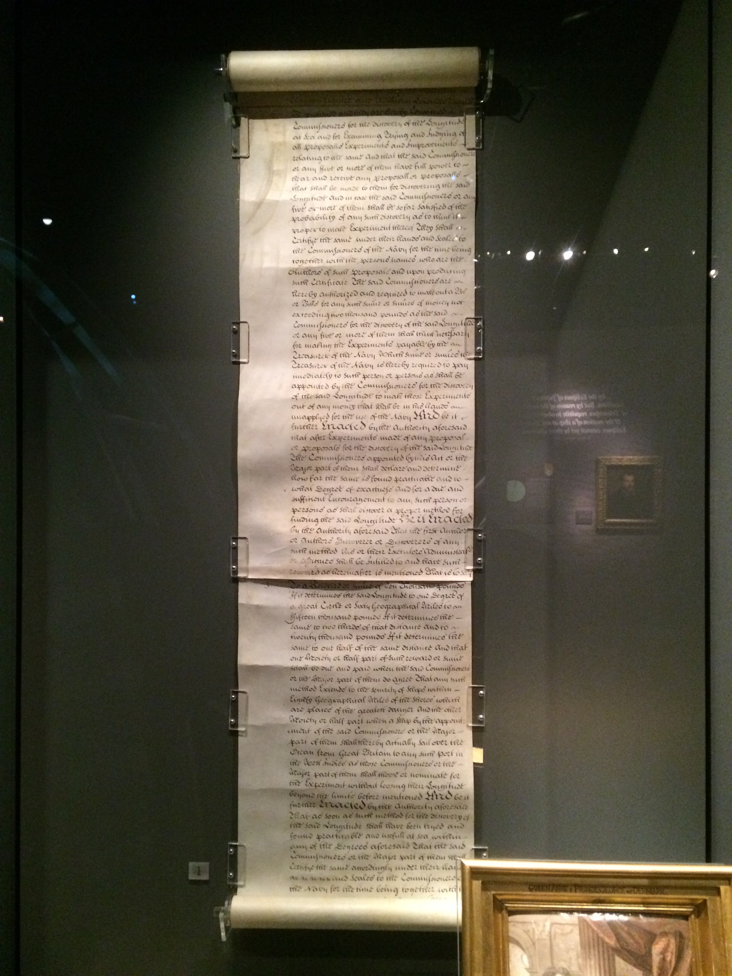 The original Longitude Act 1714 as displayed in the National Maritime Museum, Greenwich, London